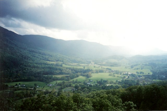 Author:Kevin Estep. I took this photo myself in 2004.